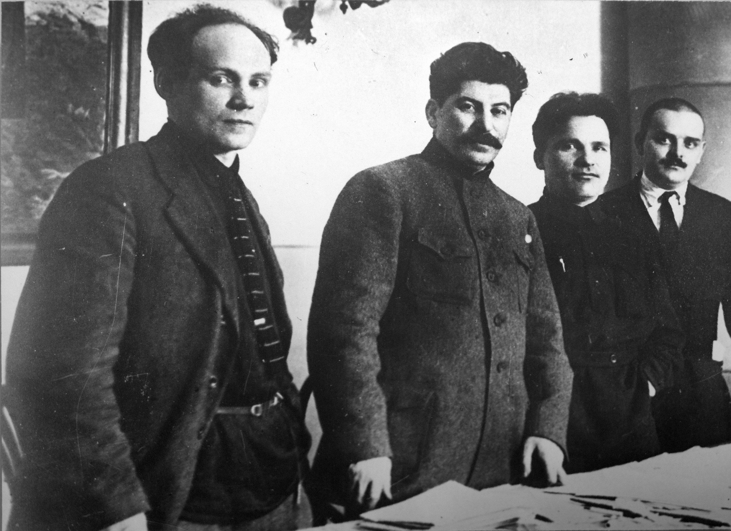 Second Secretary of the Leningrad Regional Committee of the CPSU N.K. Antipov (formerly the People's Commissar for Posts and Telegraphs of the USSR), Stalin, First Secretary of the Leningrad Provincial Committee of the CPSU Sergei Kirov, Secretary of the Leningrad Provincial Committee of the CPSU NM Shvernik; at the Smolny Institute